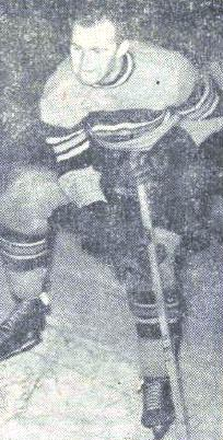 Igor Radin (1938-), Slovene ice hockey player and rower